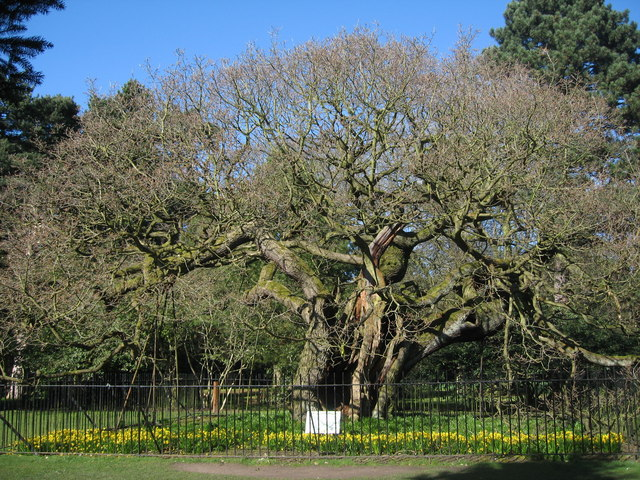 The Allerton Oak The ancient Allerton Oak stands in Calderstones Park. Thought to be a 1,000 years old, the local Hundred court is said to have met beneath its branches.